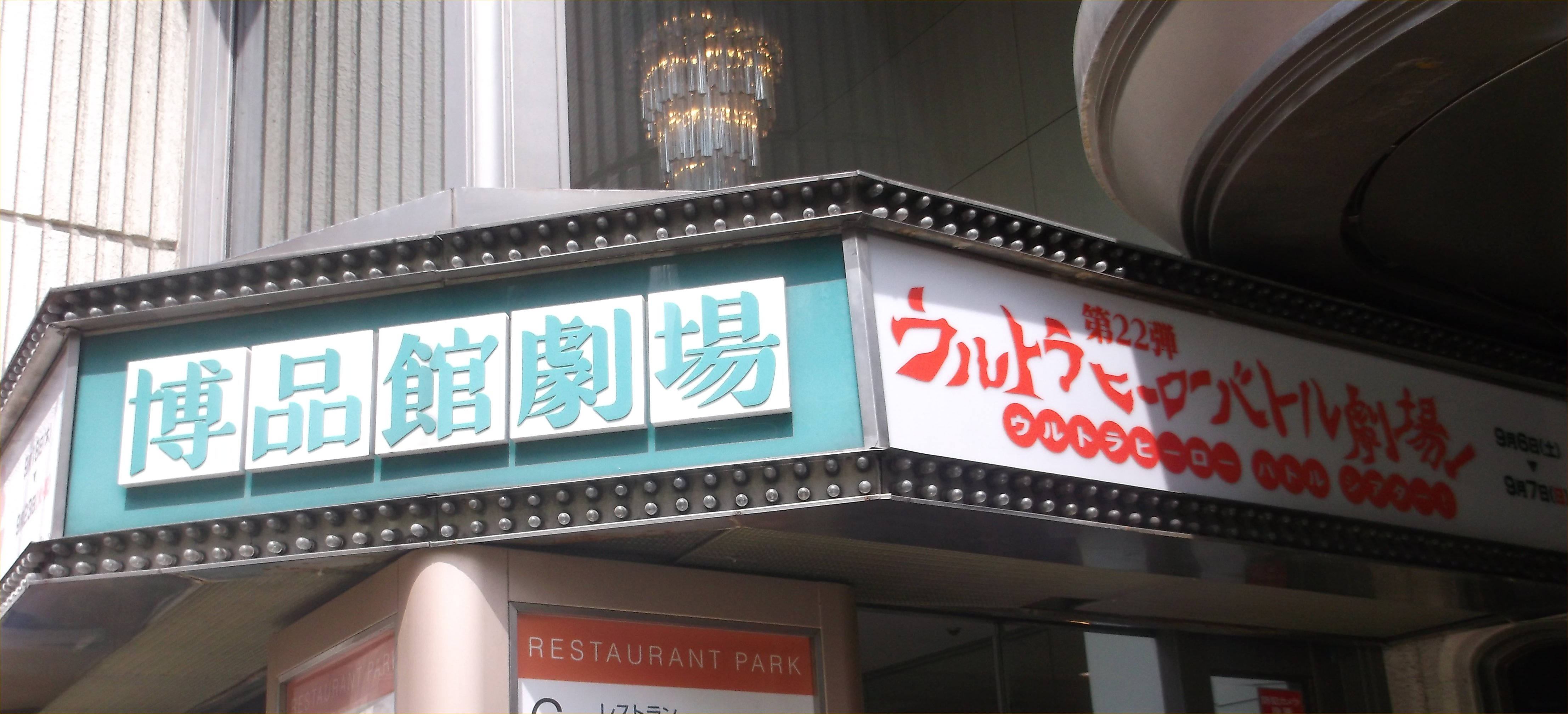 a photo of the entrance of Hakuhinkan theater,Ginza,Chuo-ku,Tokyo,Japan.